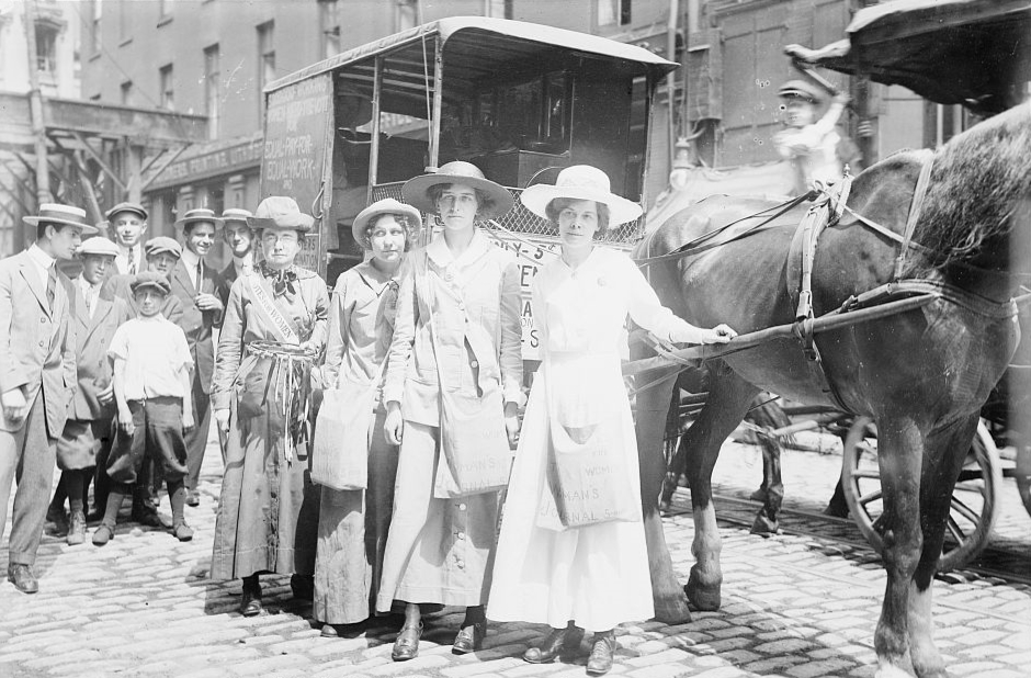 Photo shows (left to right) suffragists Ida Craft, Elsie McKenzie, Marion Craig Wentworth and Elisabeth Freeman (1876-1942). (Source: Flickr Commons project, 2009)